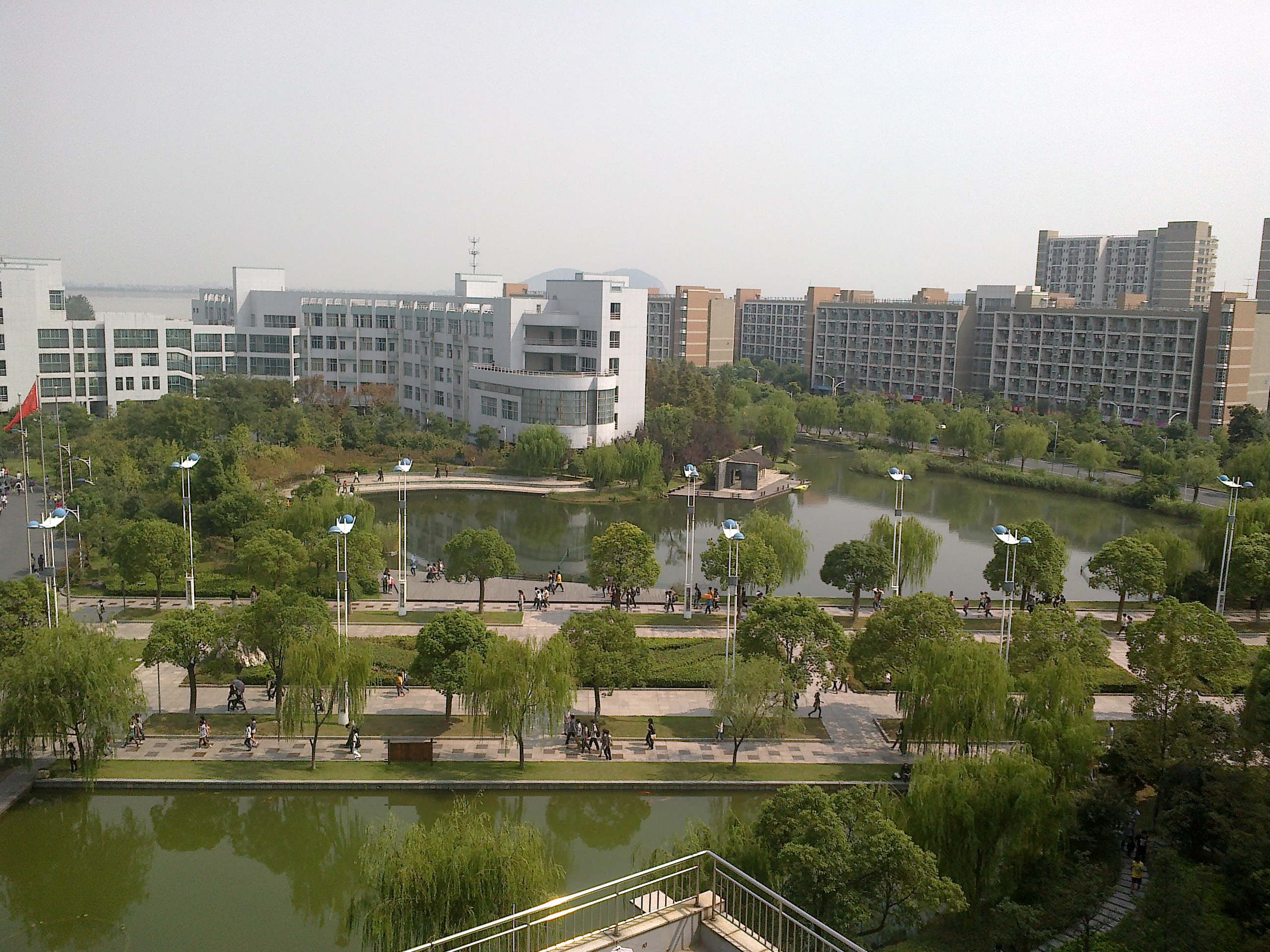 hangzhou normal university